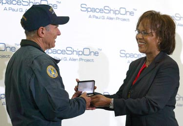 Patricia G. Smith, Associate Administrator for Commercial Space Transportation at the FAA, presents SpaceShipOne pilot Micheal Melvill the department's first commercial astronaut wings.